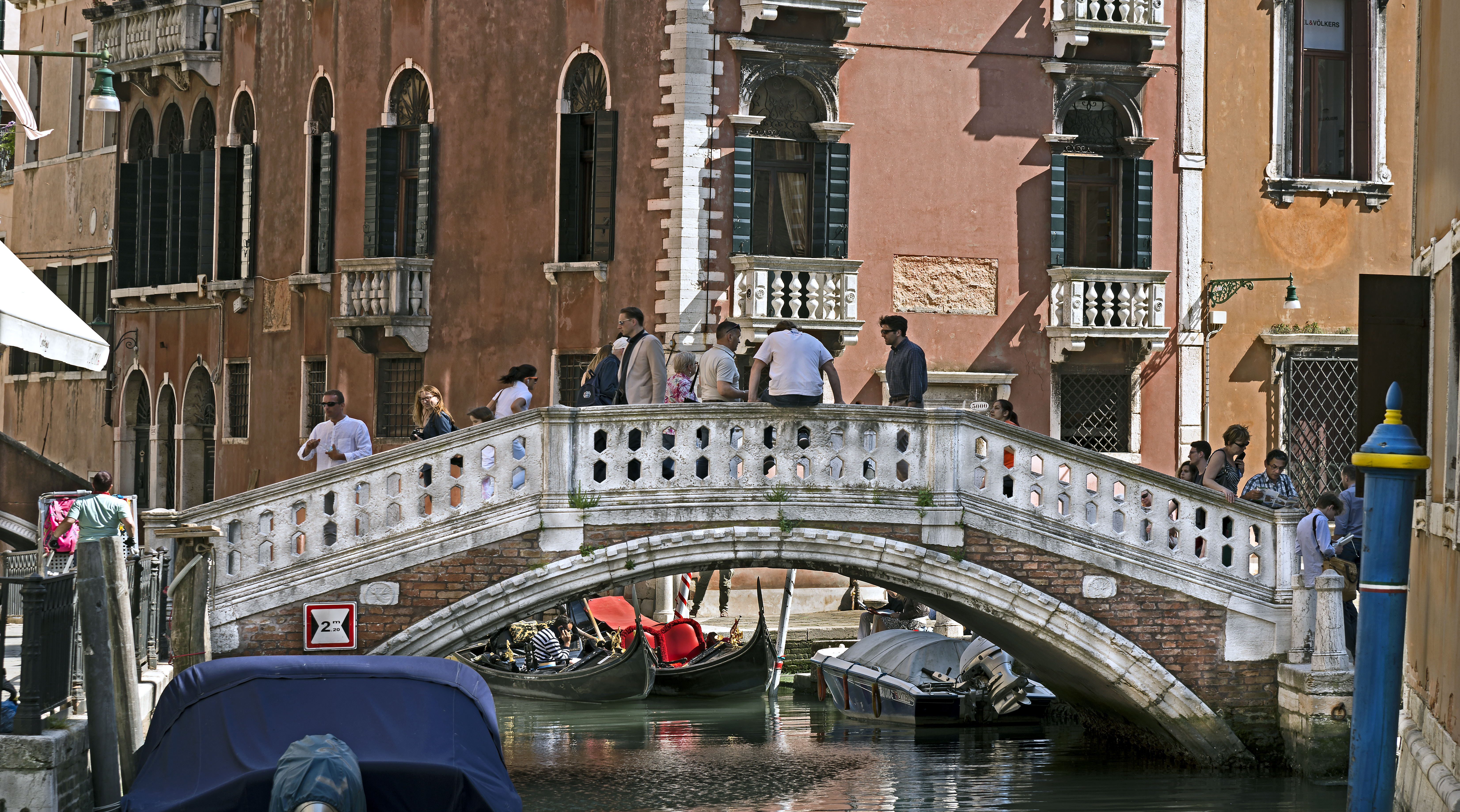 Ponte dei Frari on Rio dei Frari - Venice.